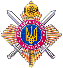 Emblem of the Department of the State Guard of Ukraine